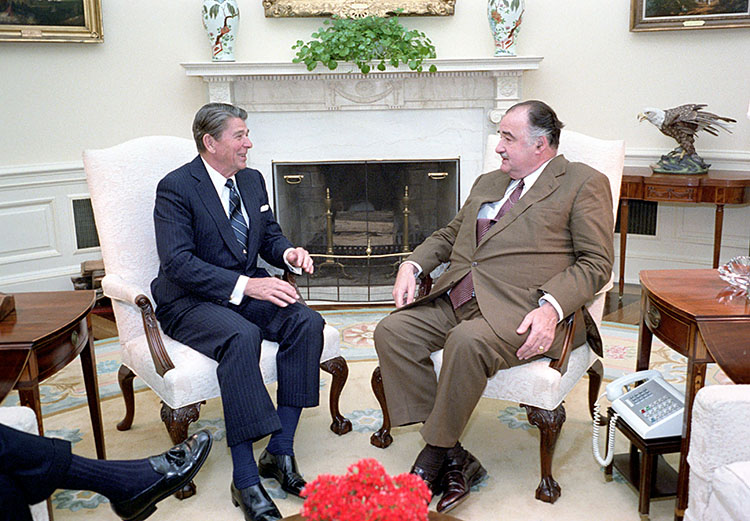 6/7/1983 United States President Ronald Reagan during a meeting with Alexandre de Marenches in the Oval Office.